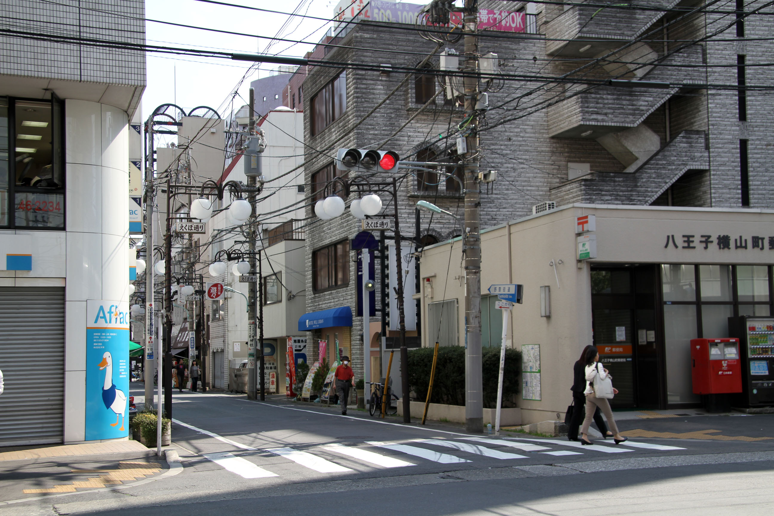 Terminus of Tokyo Prefectural Road 160 (Yaen Kaido), Hachioji, Tokyo, Japan